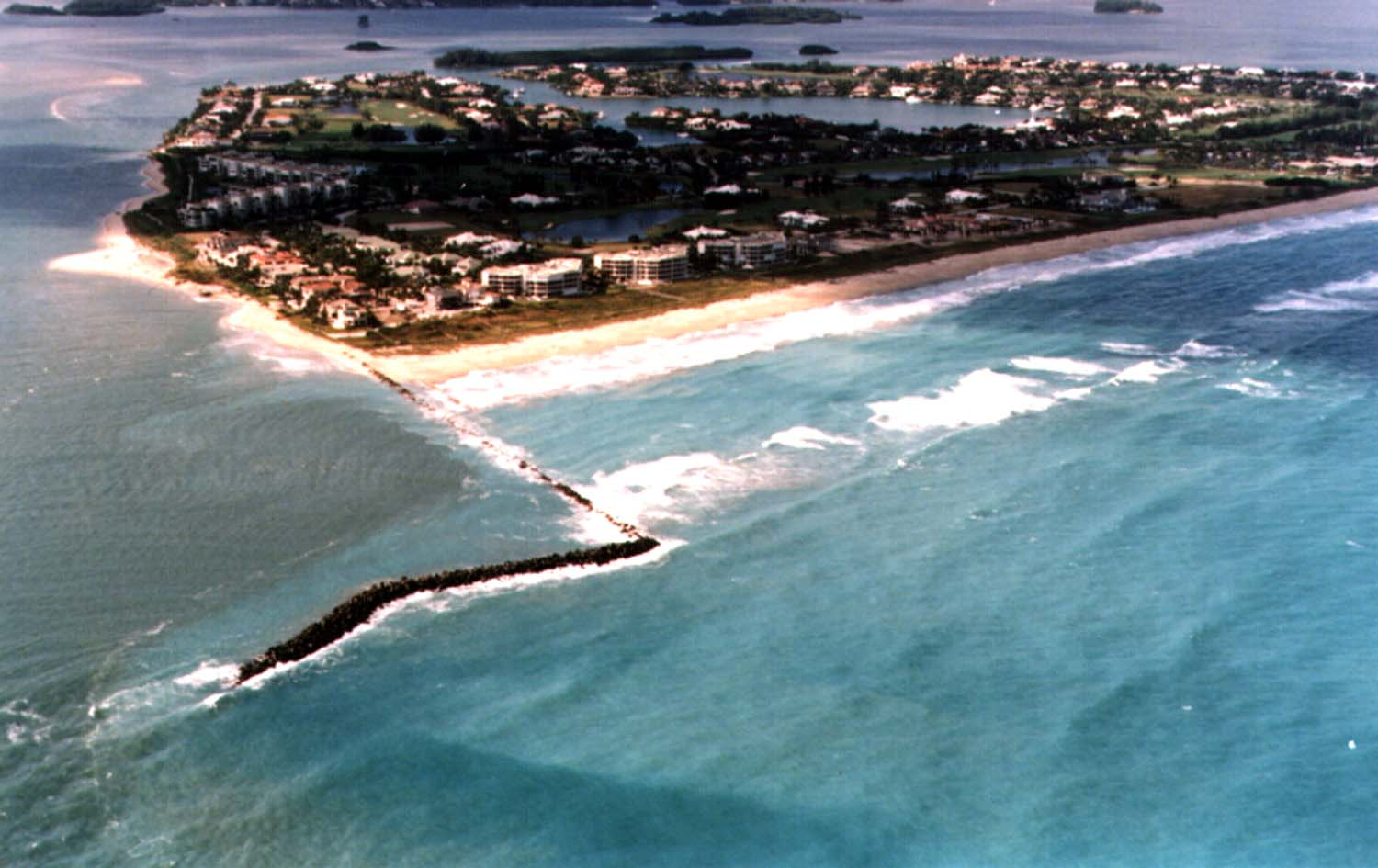 Aerial view of Sailfish Point and the St. Lucie Inlet in Martin County, Florida, USA. The inlet is an entrance from the Atlantic Ocean to the Indian River Lagoon and the St. Lucie River. View is to the northwest from over the Atlantic Ocean. Coordinates: 27°9′58″N 80°9′24″W / 27.16611°N 80.15667°W